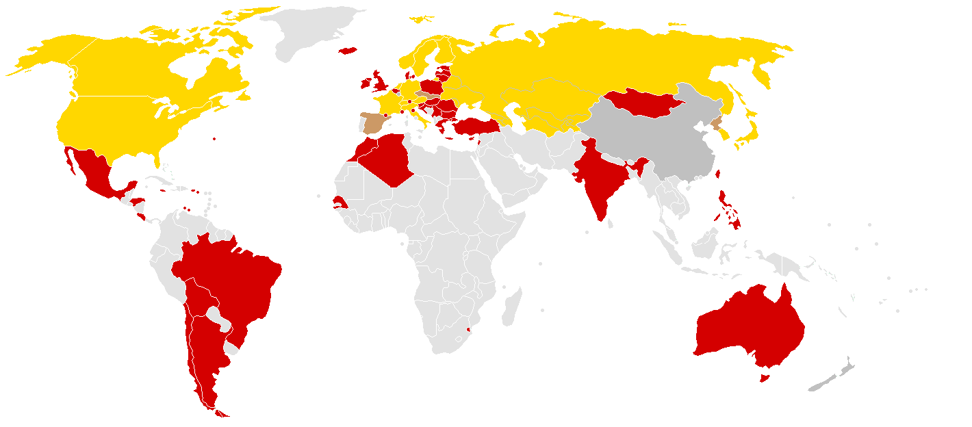 Countries with at least one gold medal Countries with at least one silver medal Countries with at least one bronze medal Countries that didn't get any medal Countries that did not participate